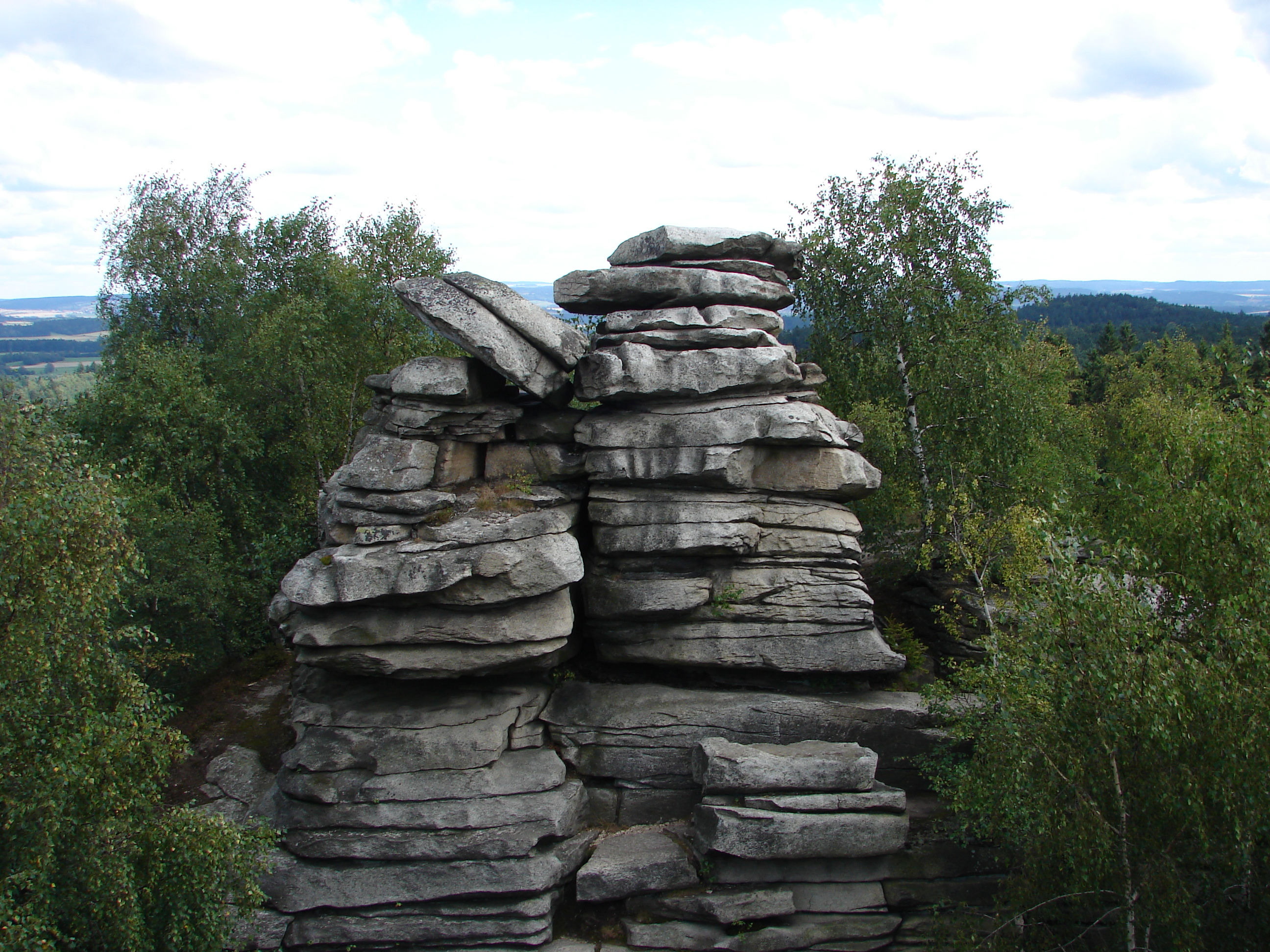 Natural monument Míchova skála, Jihlava District, Czech Republic.